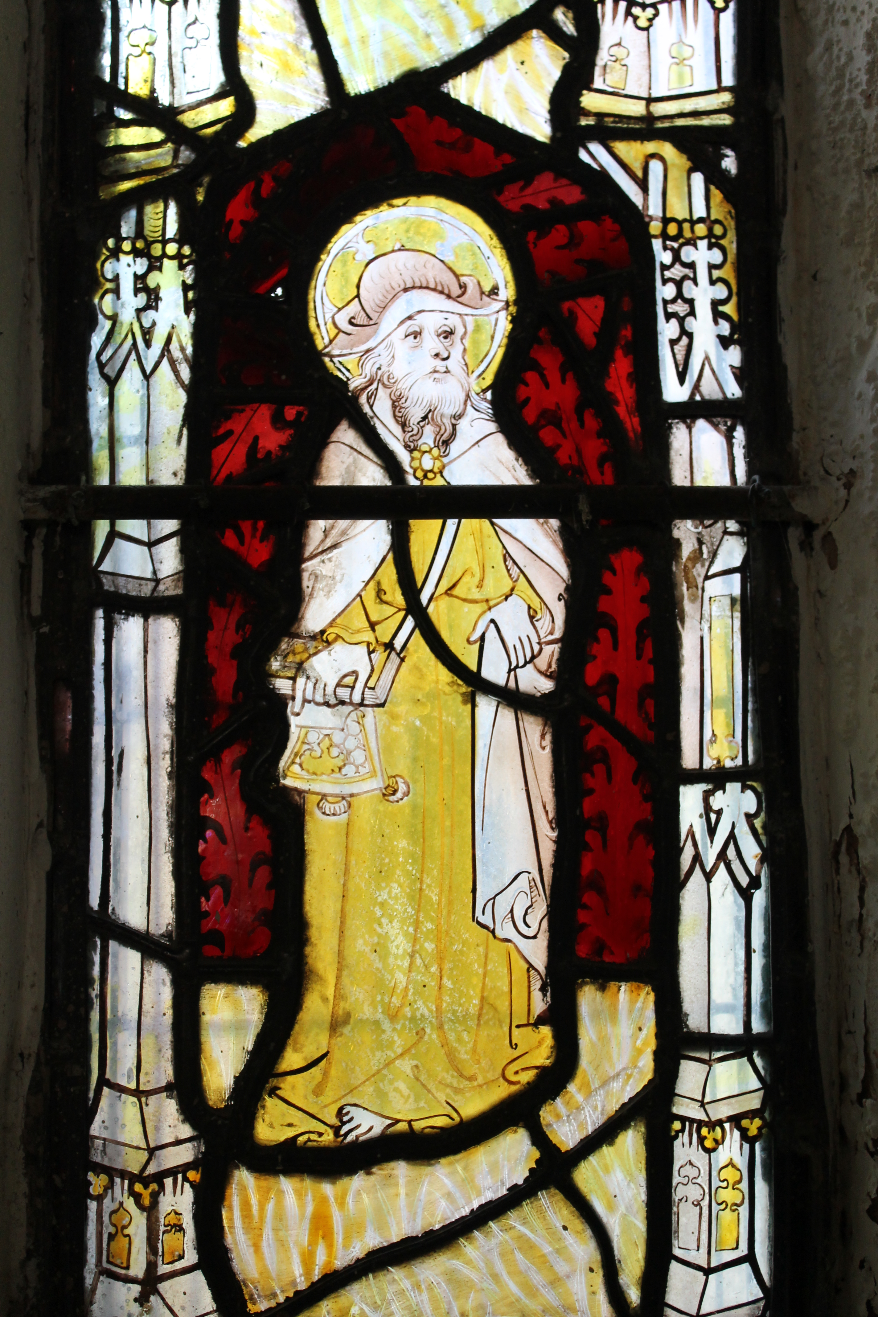 St Tysilio, Llantysilio, Denbighshire, LL20 8BT.